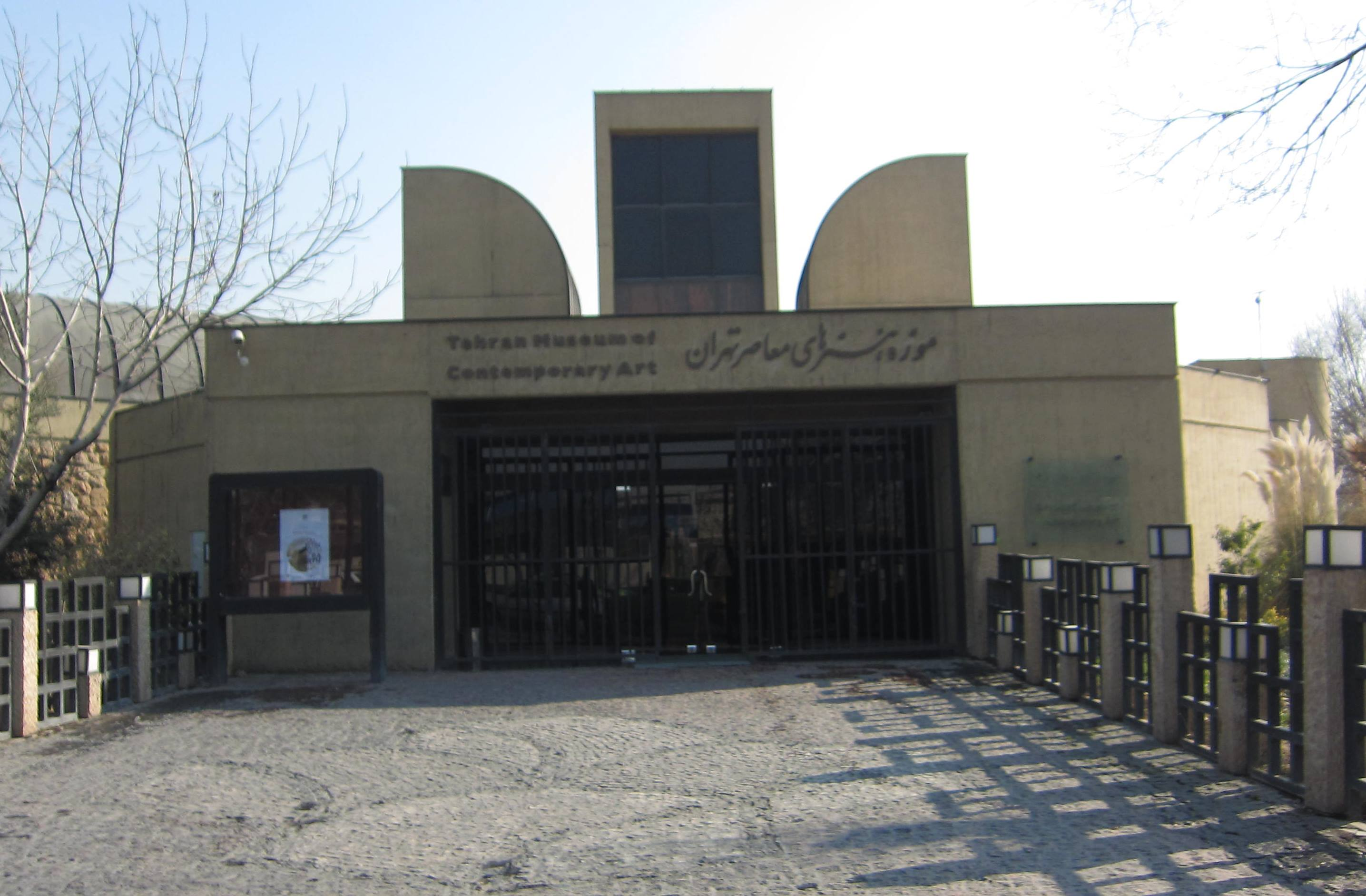 The gate of Tehran Museum of Contemporary Art